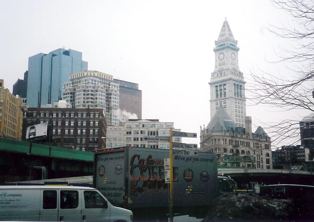 picture taken by user Husond.